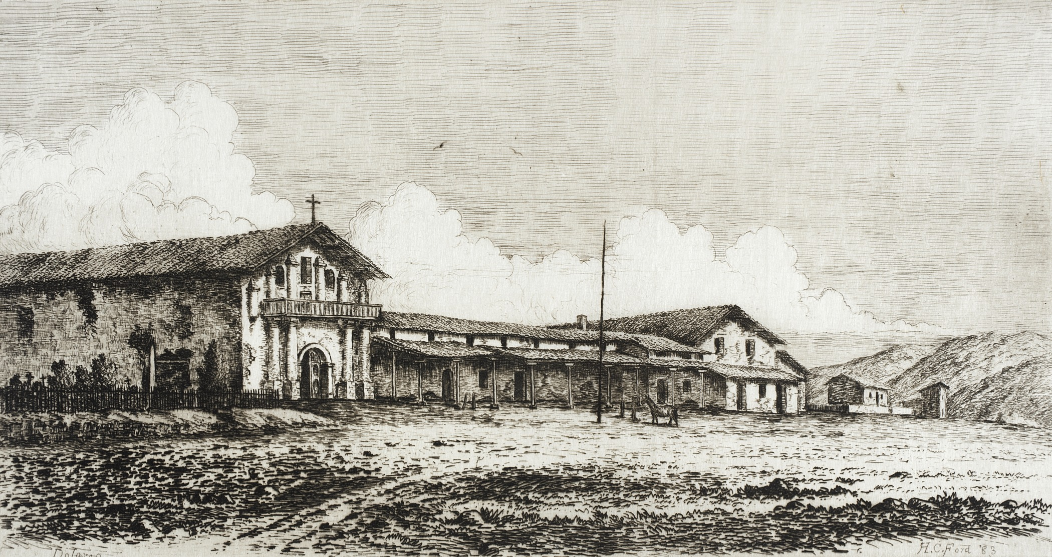 United States, published in 1883 Series: Etchings of the Franciscan Missions of California Edition: 31 of 50 Prints; etchings Etching Format: 12 1/2 x 17 1/2 in. (31.75 x 44.45 cm); image: 6 7/8 x 12 7/8 in. (17.46 x 32.7 cm) Graphic Arts Council Fund (M.79.53.22) Prints and Drawings